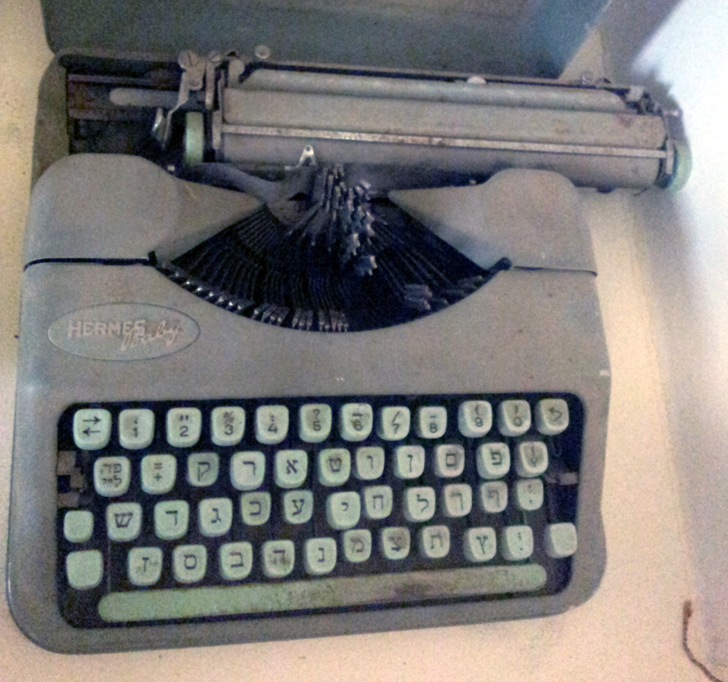 Hermes baby typewriter in Hebrew